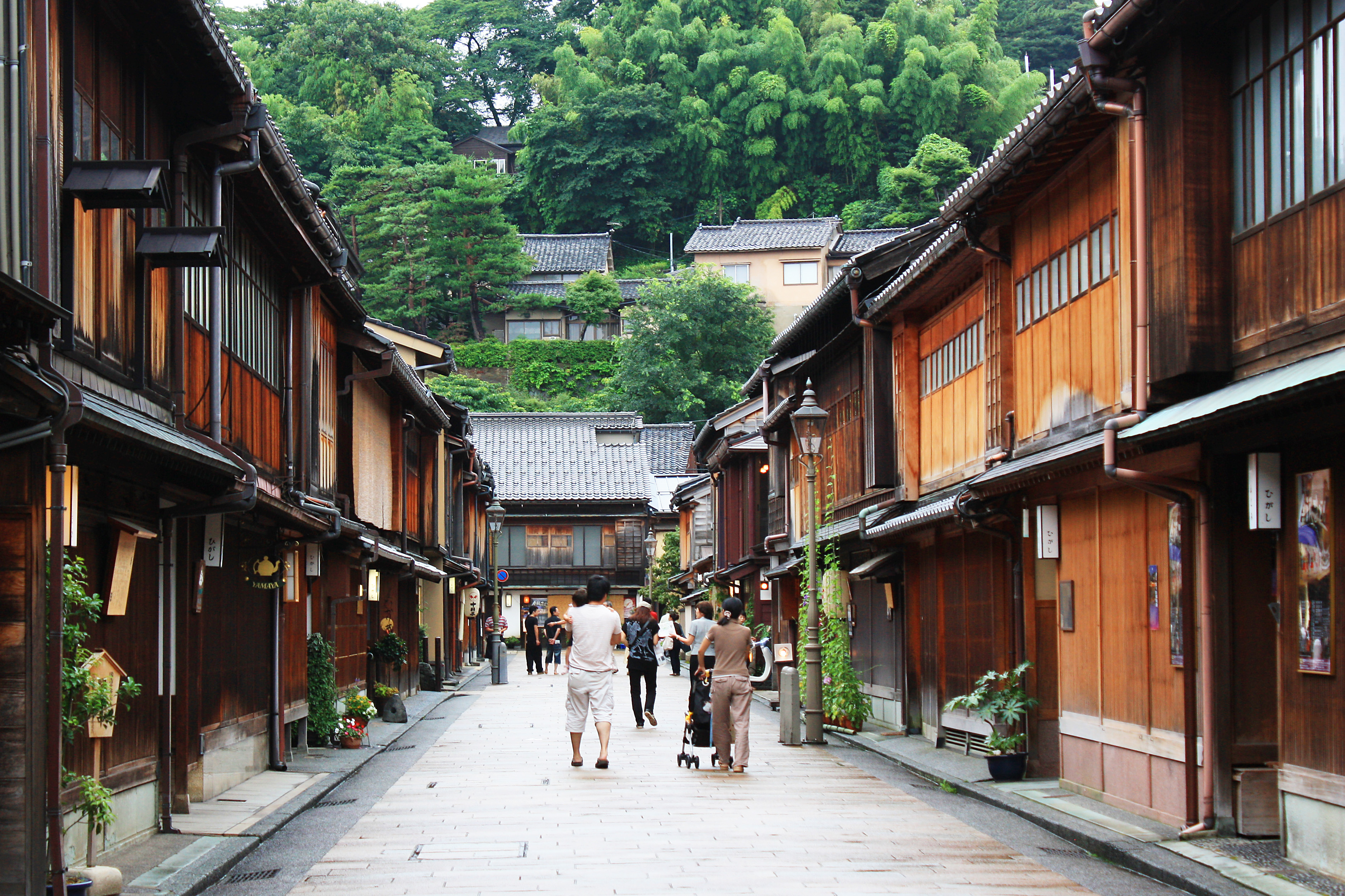 Former geisha district